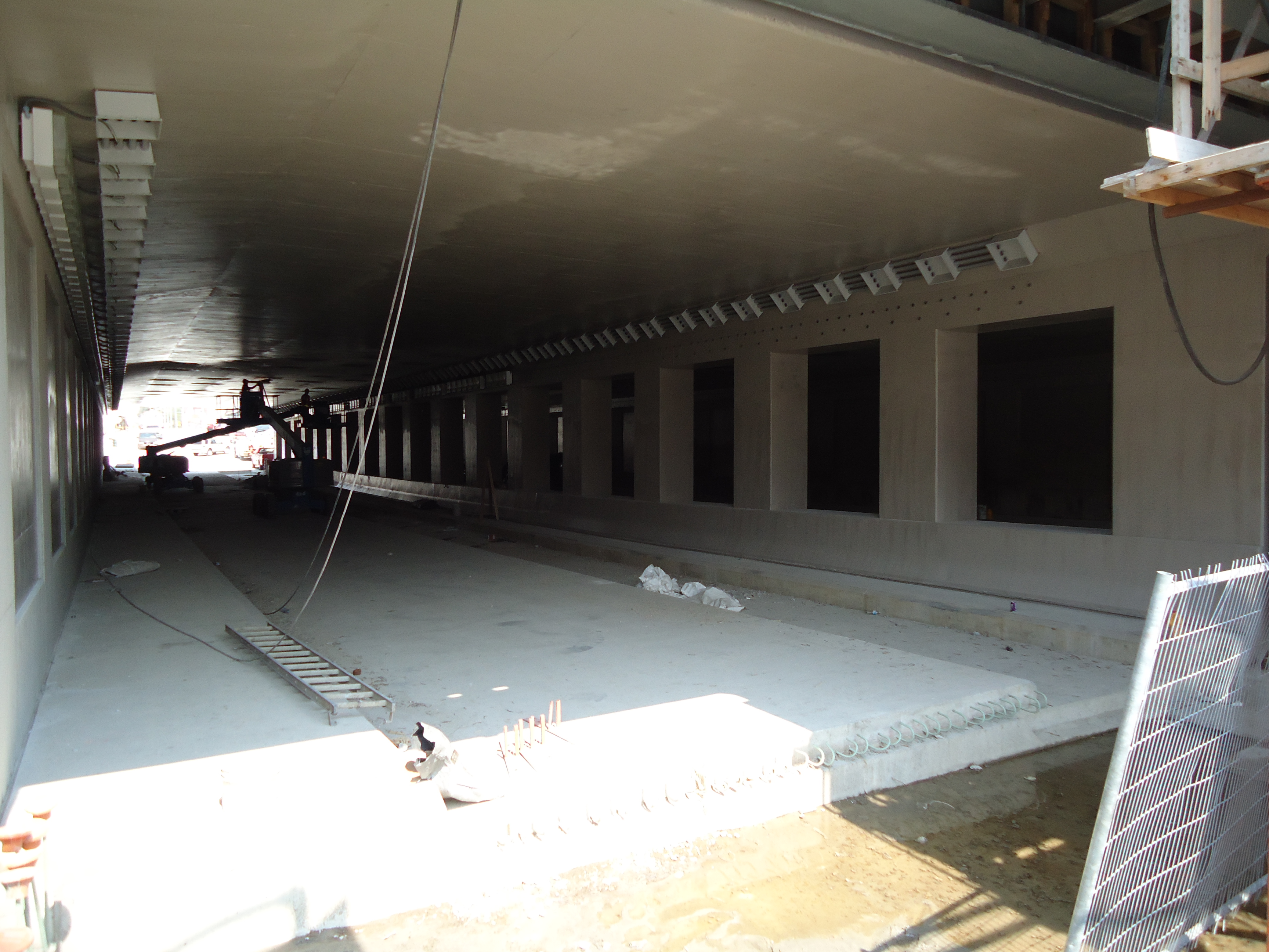 Photograph of the new tunnel constructed beneath the rail corridor at Queen Street West and Dufferin Street. The tunnel is part of the Dufferin Jog Elimination, a major road reconstruction project in Toronto, Ontario.